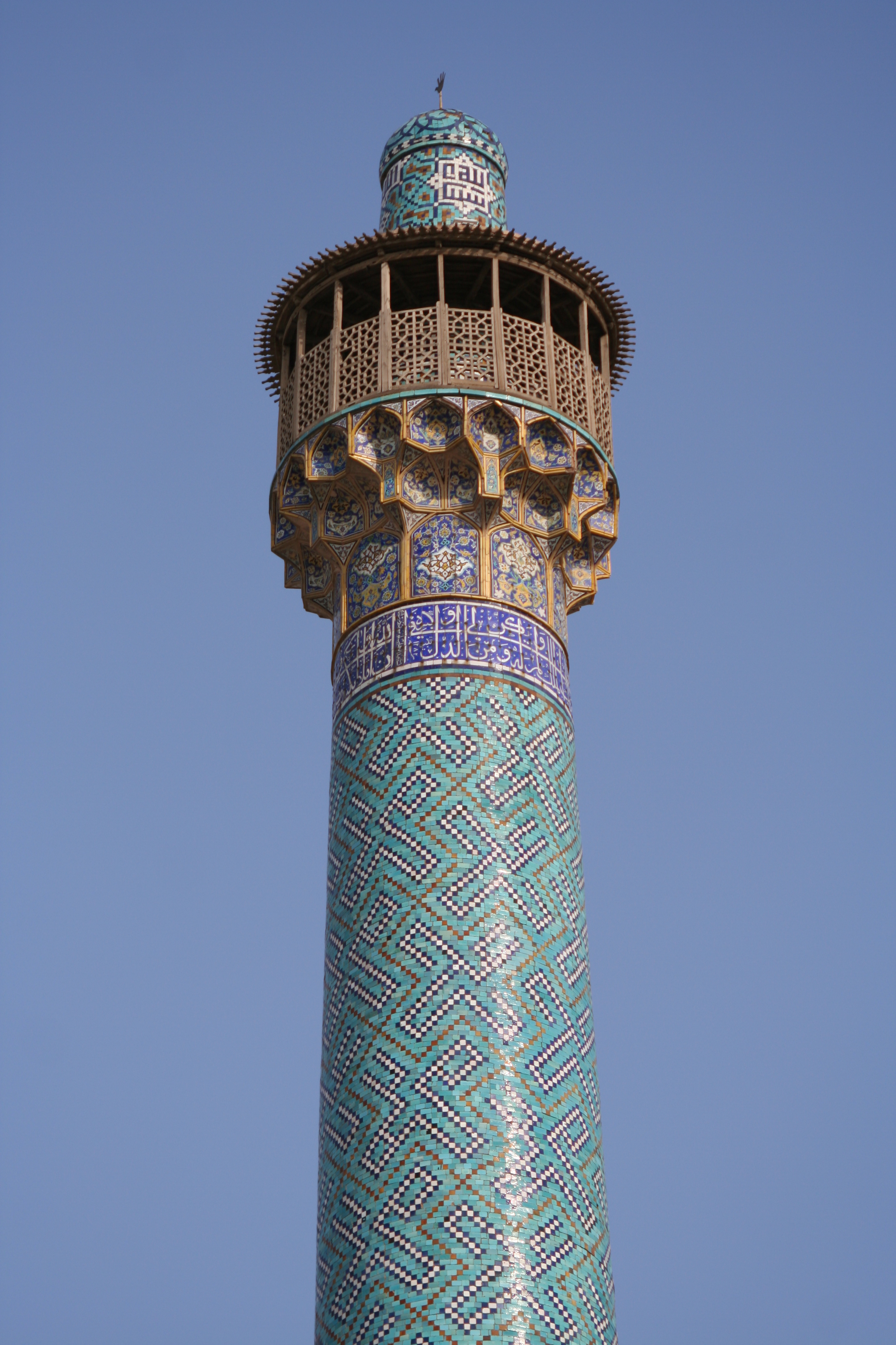 Royal Mosque (Imam Mosque), minaret; tiling with interlocking names of Muhammad (محمد) and Ali (علی) in Square Kufic script